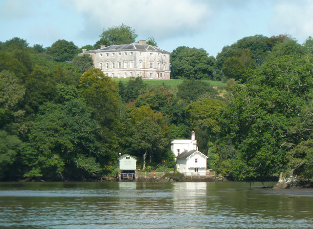 Sharpham House and Boathouse, Ashprington, Devon, viewed from the River Dart